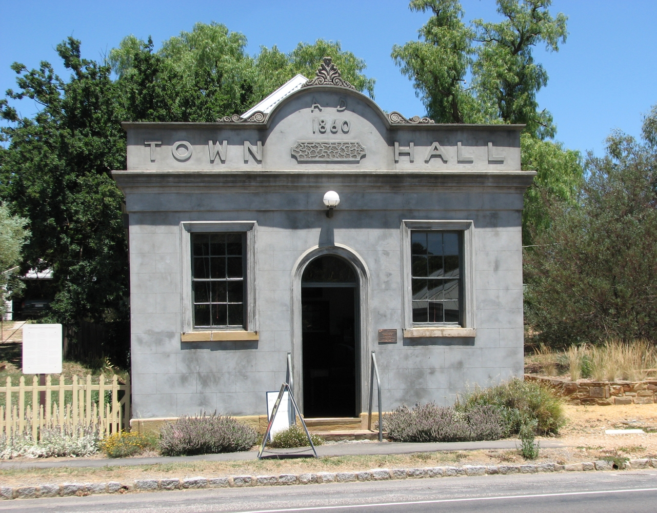 Chewton Town Hall, Chewton, Victoria, Australia